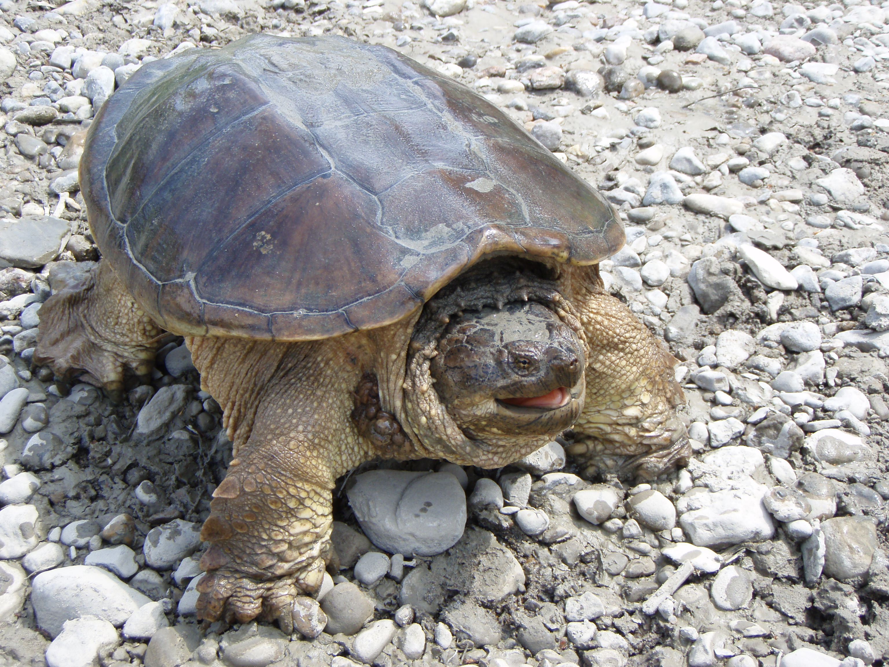 Snapping turtle, Chelydra serpentina, standing up in defensive posture.